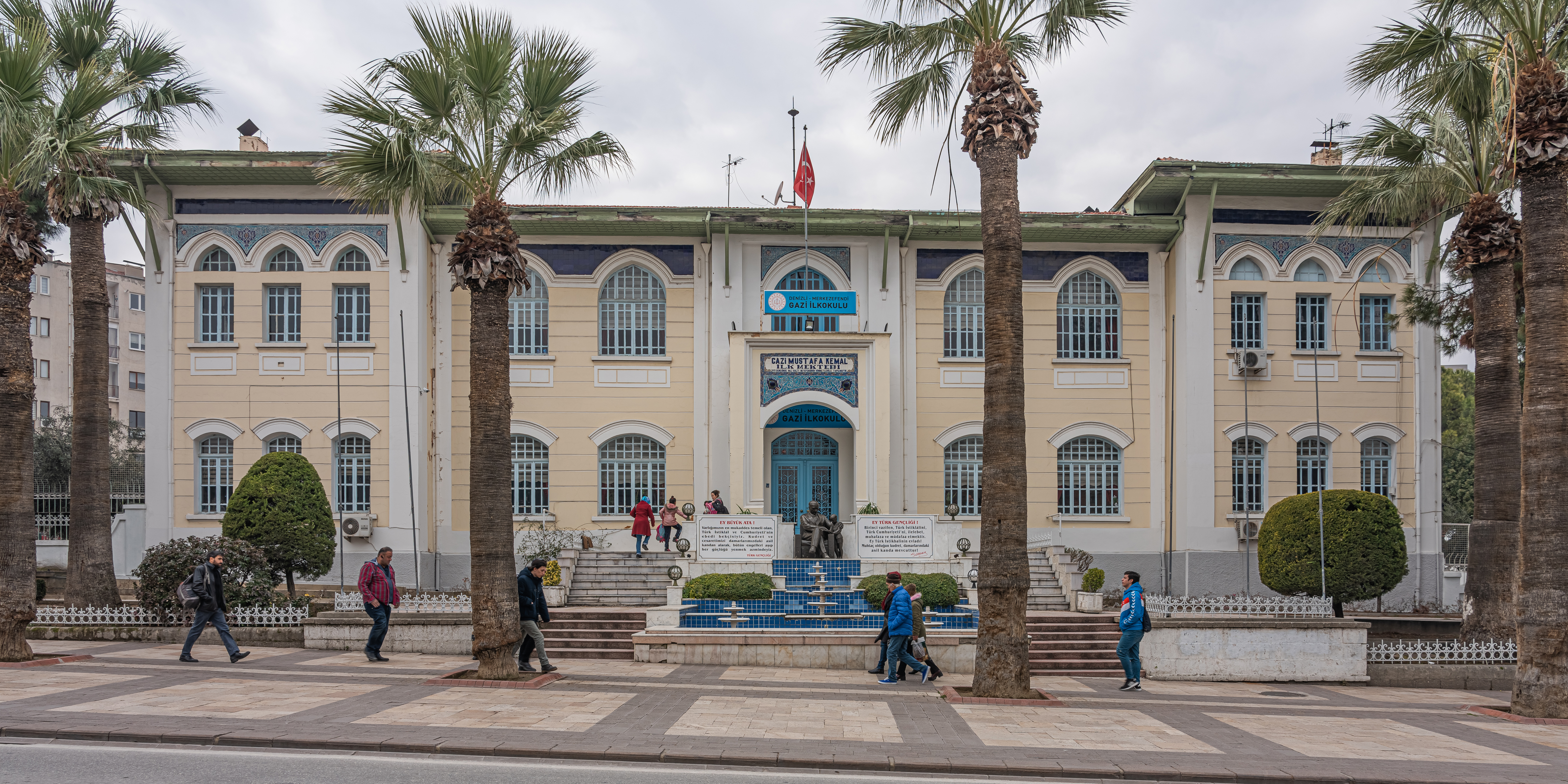 Building of Gazi Elementary School in Denizli, Turkey